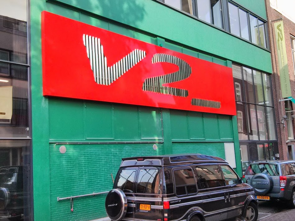 V2_ Institute for the Unstable Media in 2014